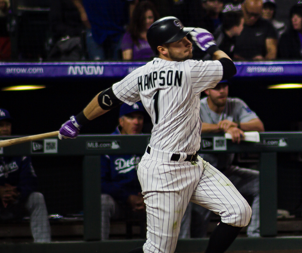 Garrett Hampson of the Colorado Rockies at bat during a 2019 game at Coors Field in Denver